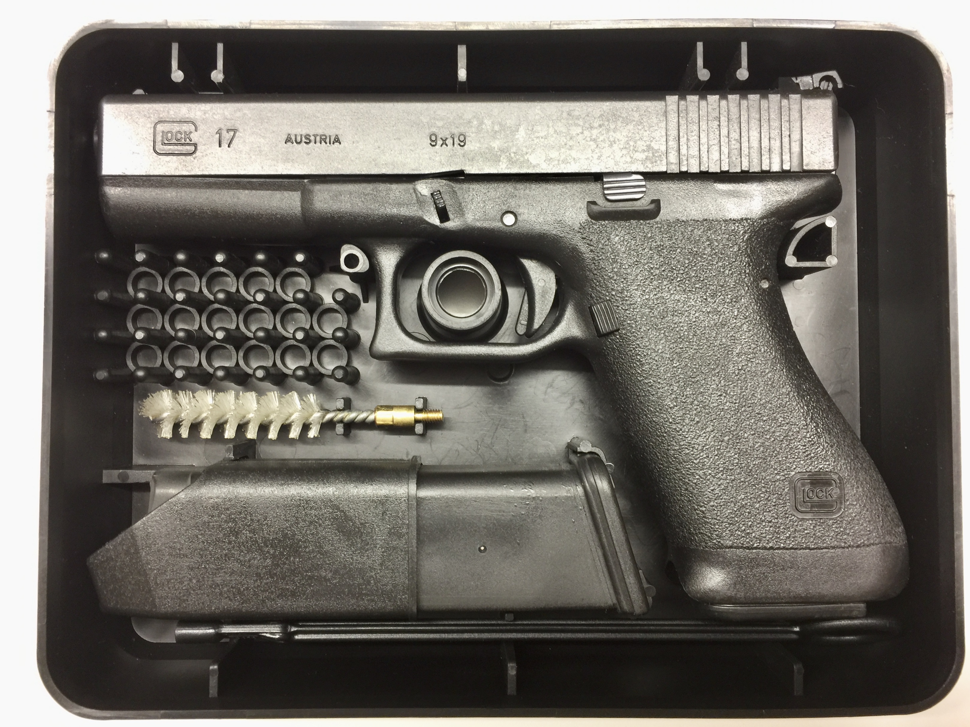 Glock 17 shown in early "tupperware" style box with ammunition storage.